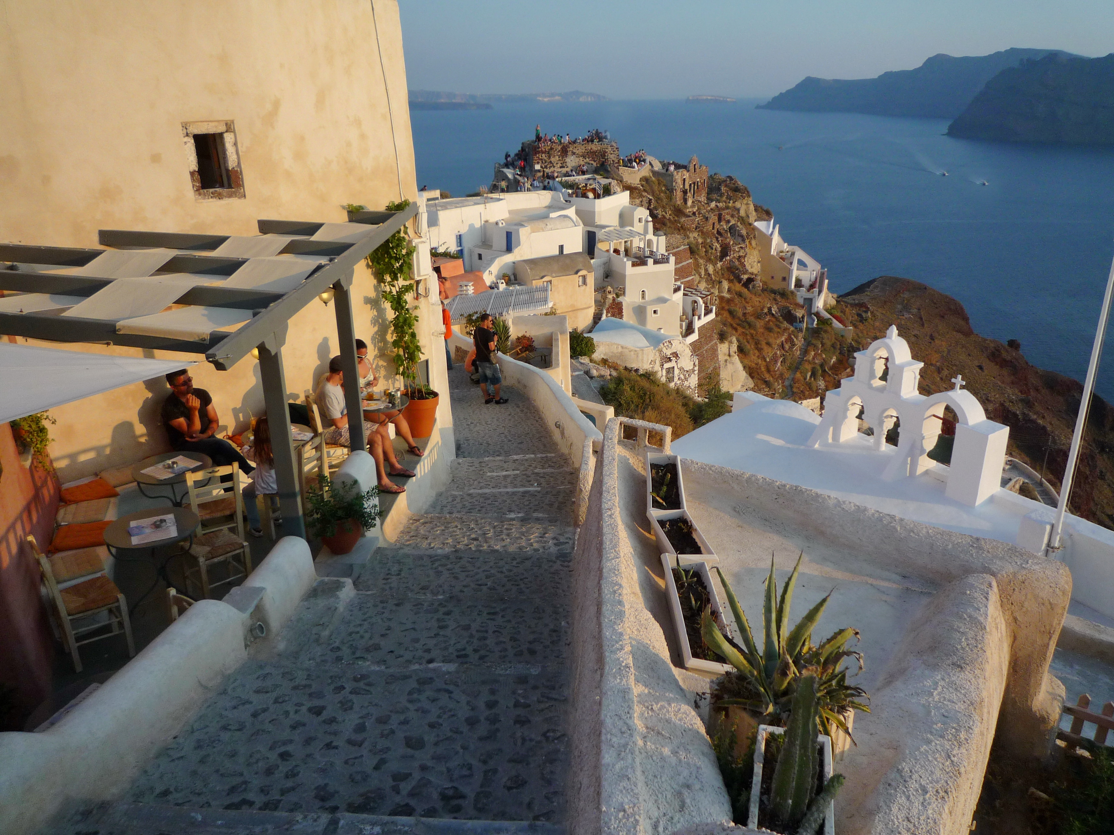 Santorini in Greece